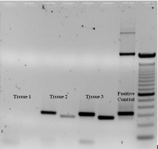 This gel was created and imaged by me. Expression of a specific gene in three separate tissues was tested by two primers. As the gel shows, Tissue #1 lacks that gene, whereas Tissue #2 and #3 possess it. A positive control was used to determine that the PCR conditions were adequate and a 1kb ladder was used to determine the size of the bands.